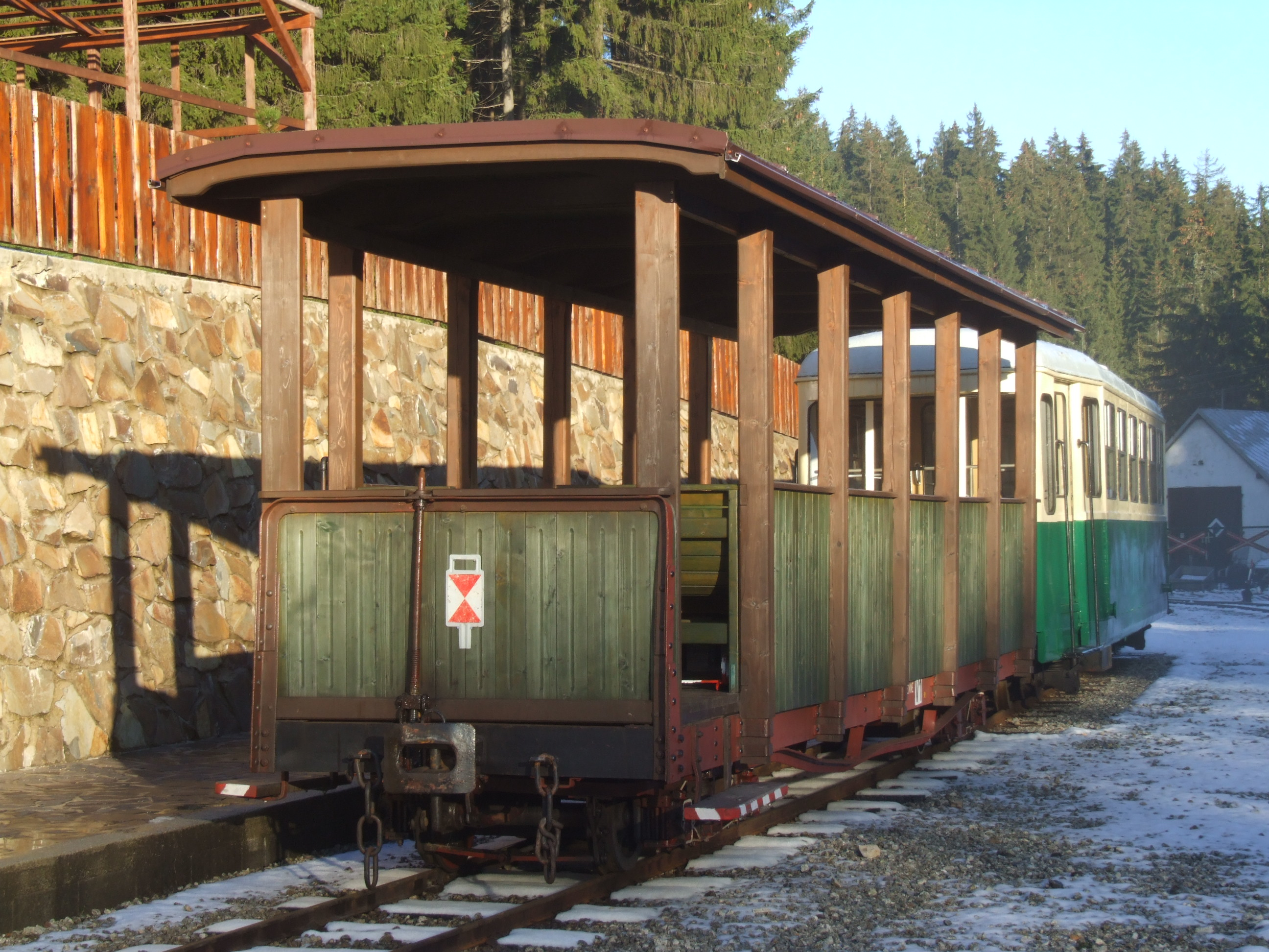 Railway carriage in station Tanečník, Slovakia